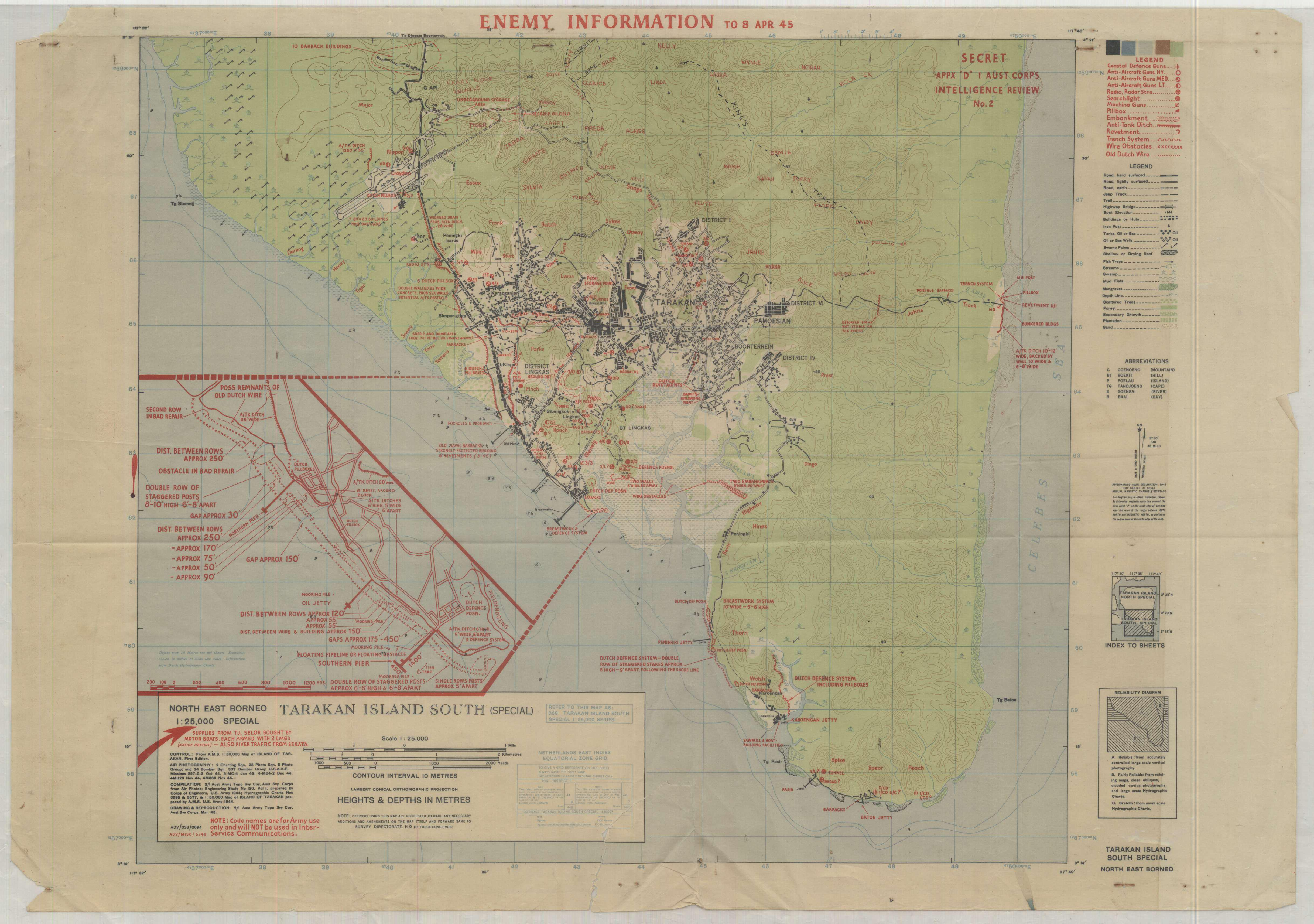 Map showing Japanese positions located on Tarakan Island by Allied intelligence as of April 1945 and code-names for positions.